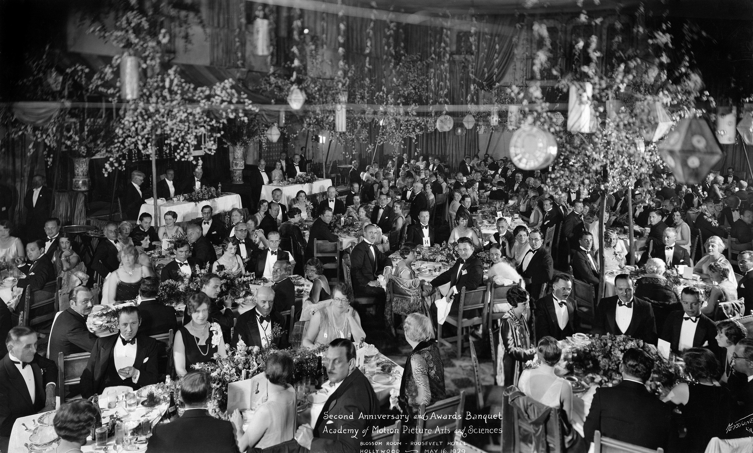 The 1st Annual Academy Awards Presentations on May 16, 1929, establishing this annual tradition which continues more than 80 years later